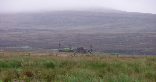 View from the eastern verge of Stines Moss into the North Dales, Orkney Mainland